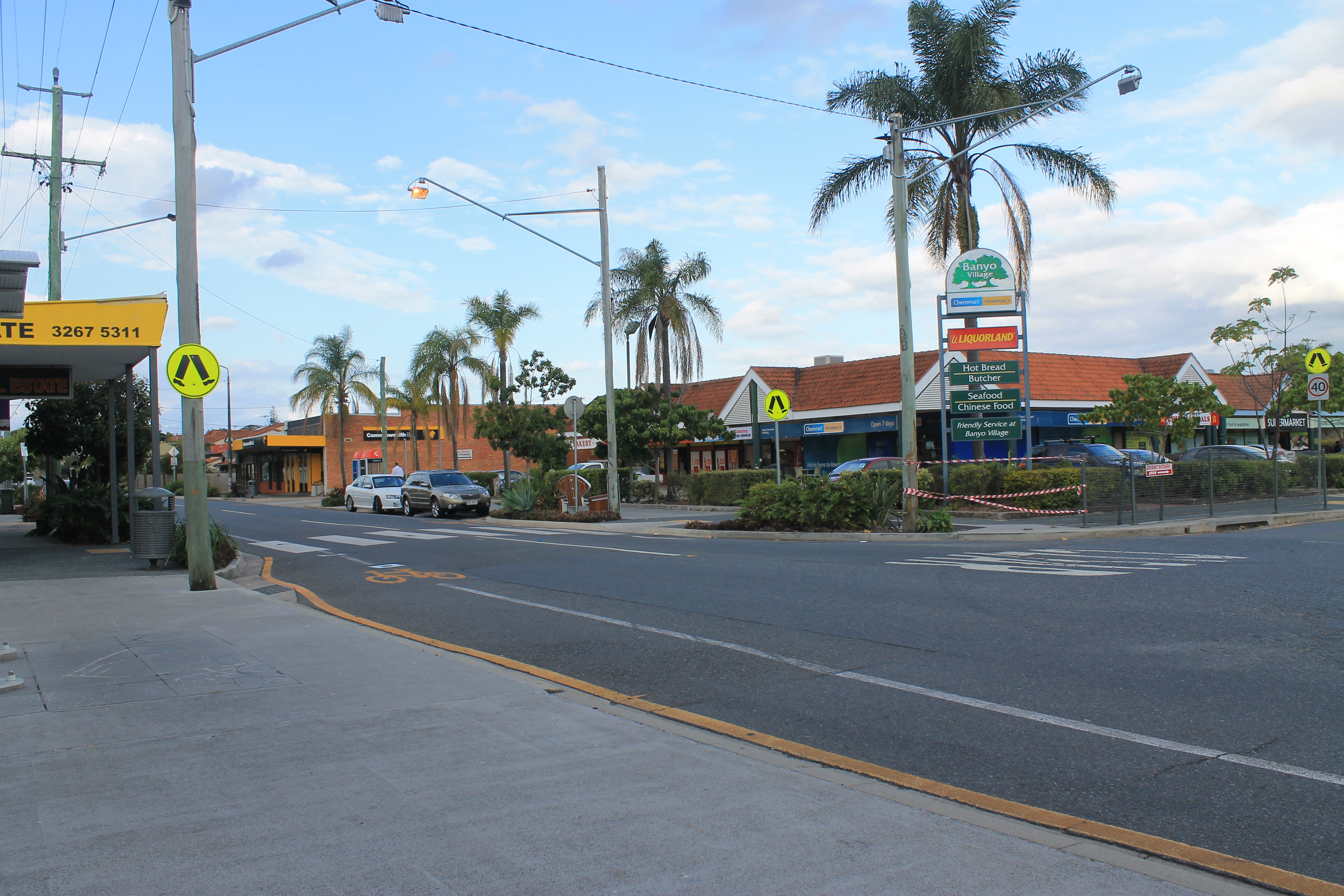 Shopping village on St Vincents Rd in Banyo, Queensland.